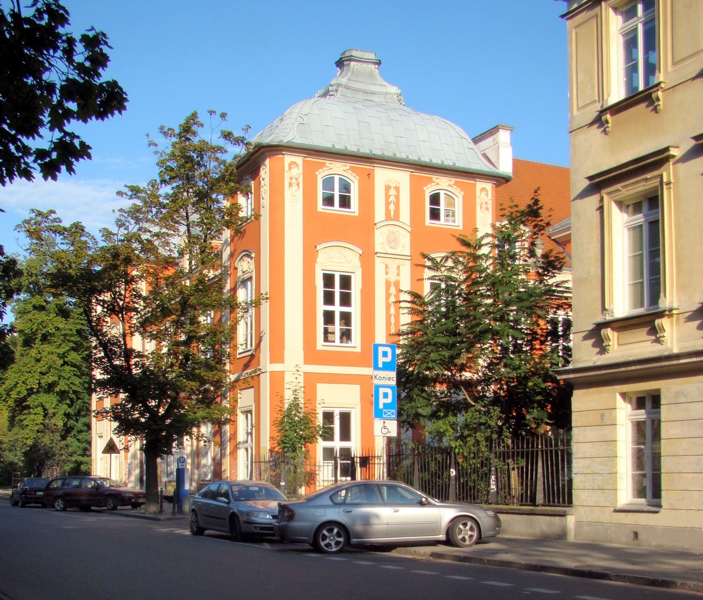 Czapski Palace Warsaw